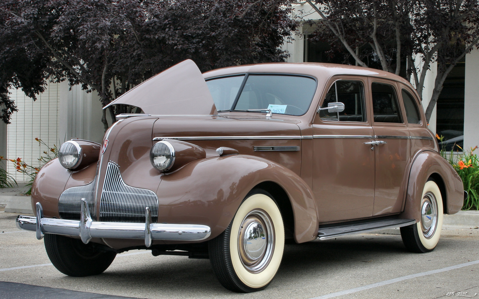 This is a picture of a vehicle (name of it is on the file name).